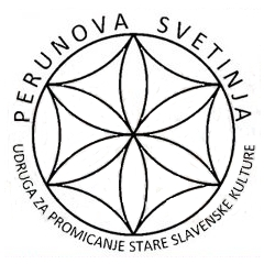 Symbol of the Slavic Rodnover association in Croatia "Perunova svetinja"